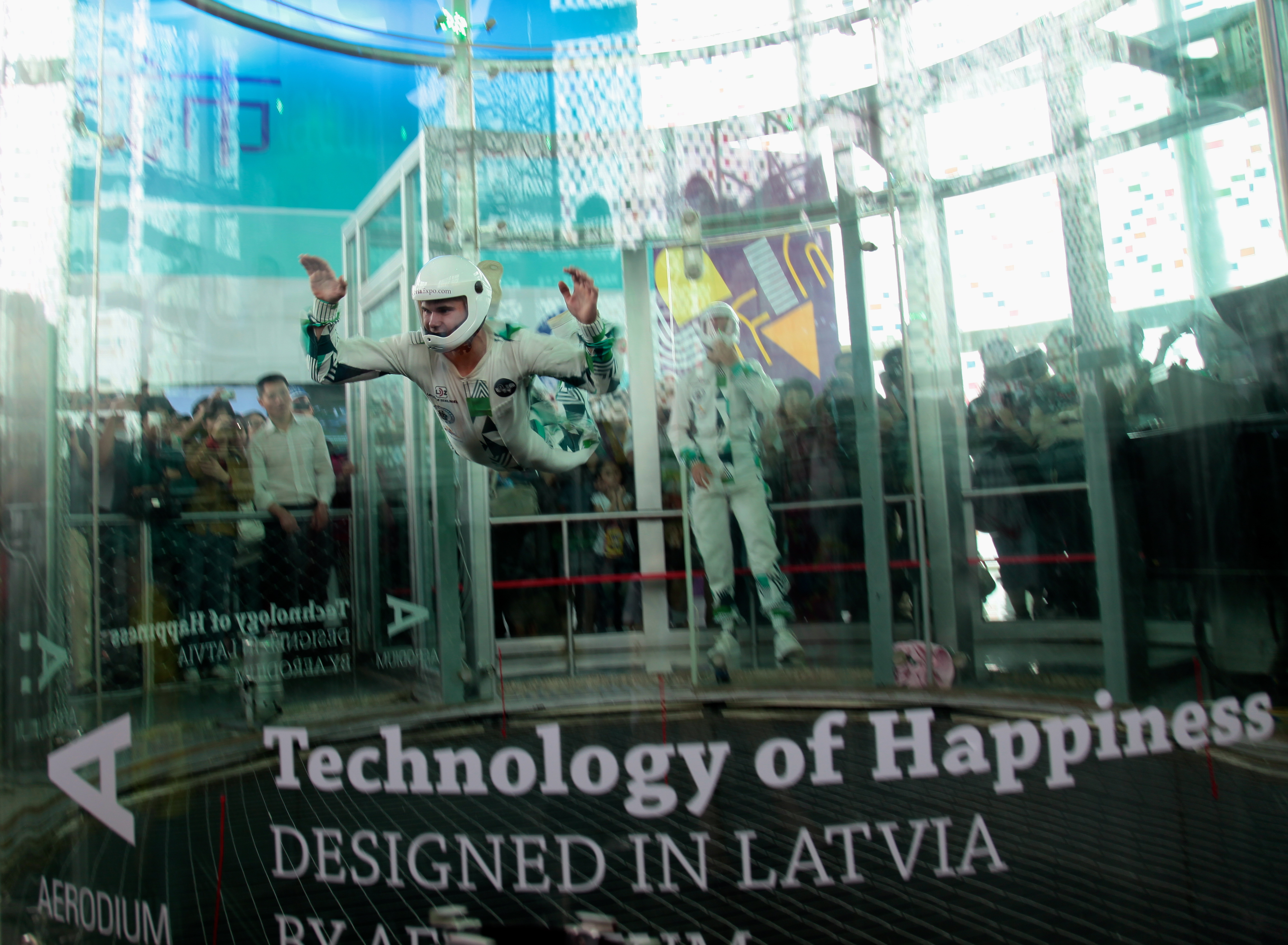 AERODIUM vertical wind tunnel at World EXPO 2010, SahnghaiLatviešu: AERODIUM vertikālais vēja tunelis Expo 2010 Šanhajā